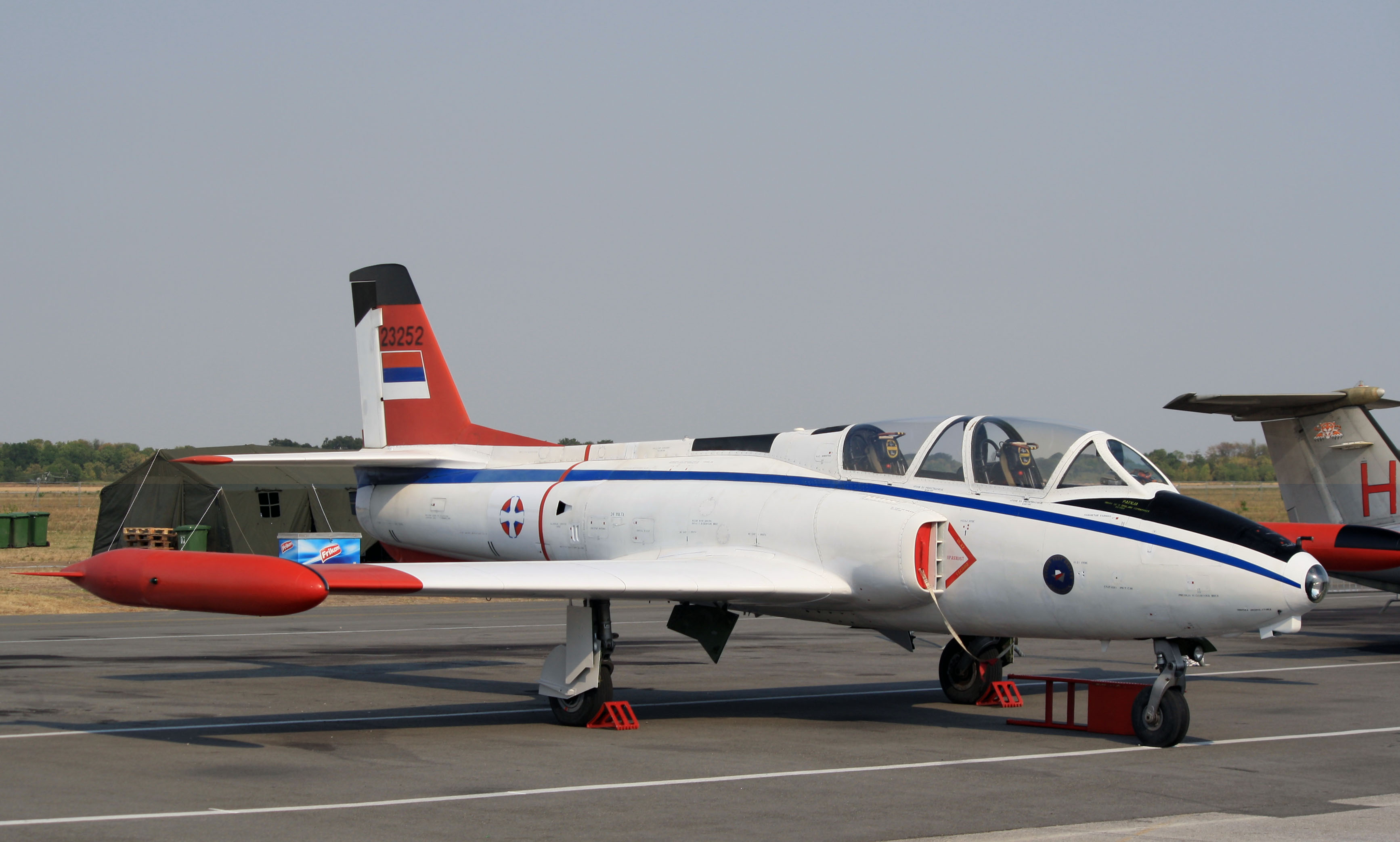 G-2 Galeb trainer/light attack jet aircraft No.23252 of Flight-Test Center (CLI, ex-Flight-Test Center - VOC) of Technical Test Center (TOC) on display at Batajnica Air Show 2012 held to celebrate 100 years of Serbian Air Force.